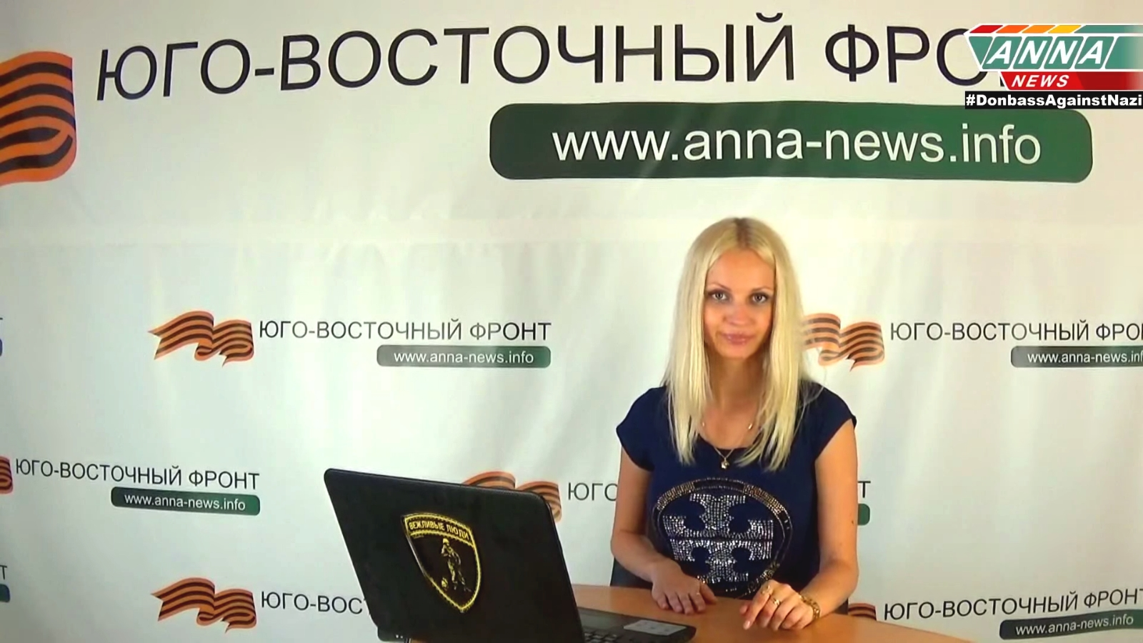 Helen Krasovskaya (ANNA News) with latest news of Novorossia, Aug 16, 2014.